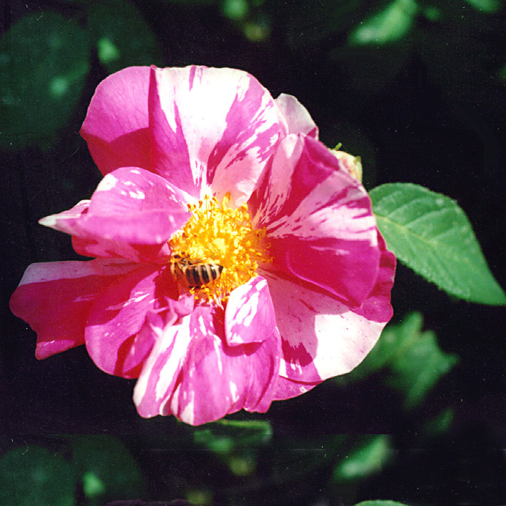 Old Garden Rose Gallica group